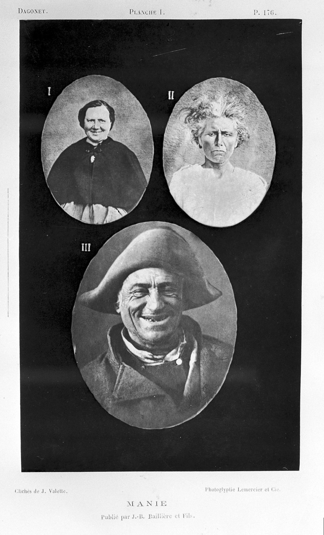 'Manie' illustration. General Collections Keywords: mental maladie; H. Dagonet